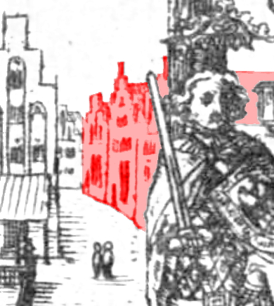 Three (probably modernized) gables of Bremen's Romanesque former townhall in 1596, before its sale to private owners in 1598